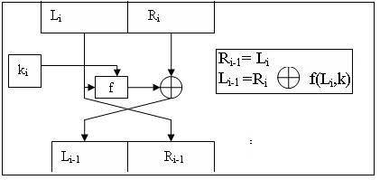 sheme Feictel2